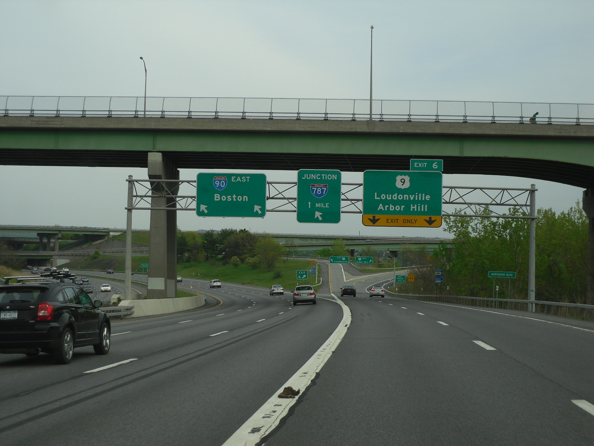 The Albany, New York, interchange between Interstate 90 and U.S. Route 9 as seen from I-90 eastbound.